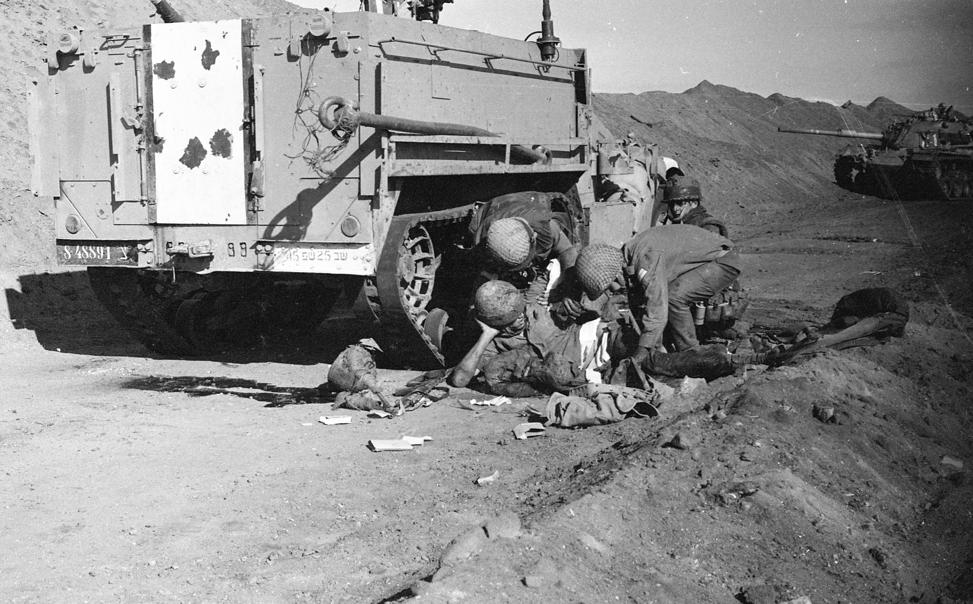 The Egyptians shelled the IDF positions on the Suez Canal causing some causalities among the IDF soldiers.